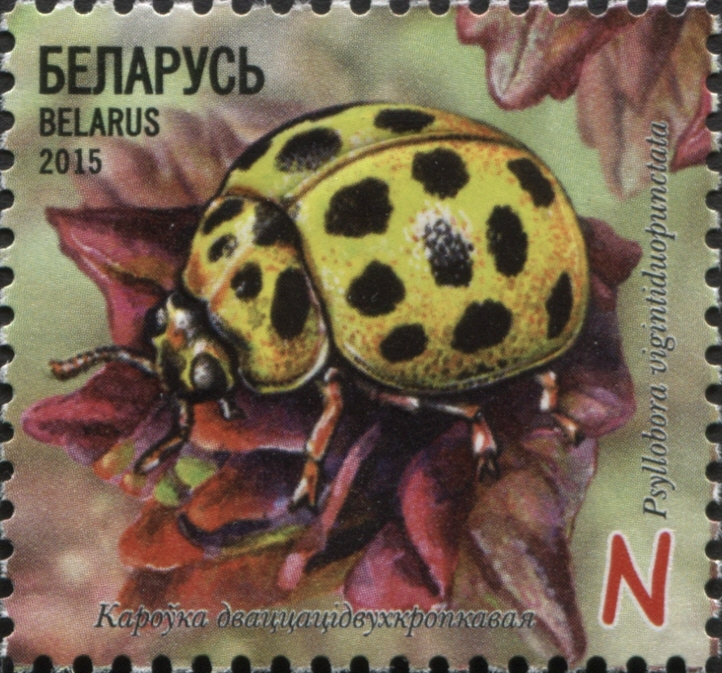 Stamps of Belarus, 2015